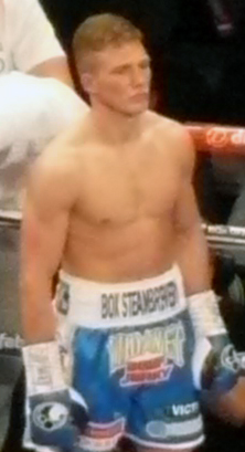 Nick Blackwell at The O2 Arena, ready to face John Ryder for the British middleweight title.